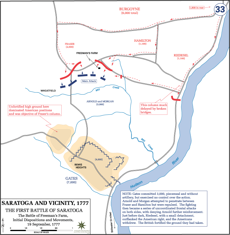 First Battle of Saratoga